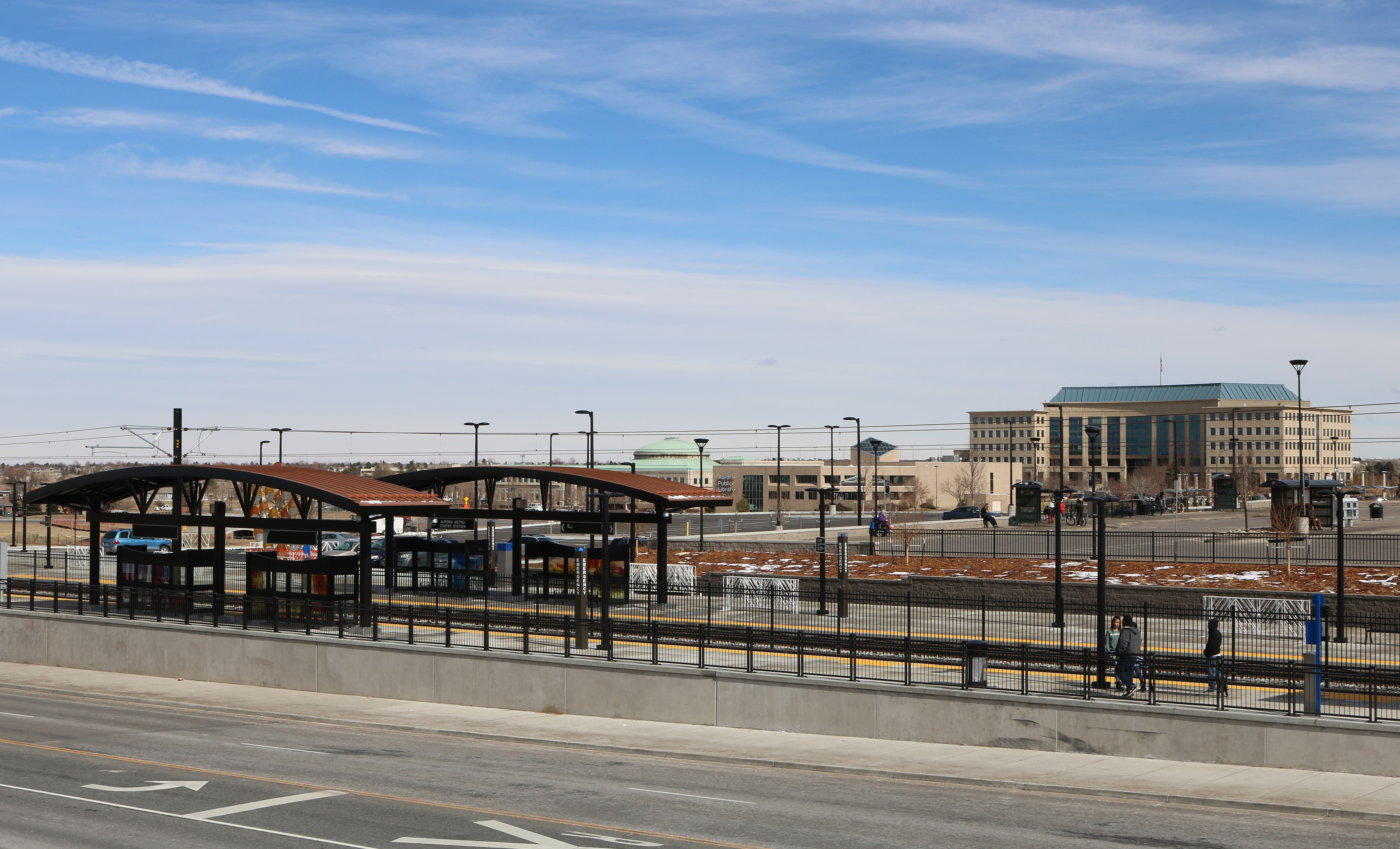 The Aurora Metro Center station, located at 14555 East Centrepoint Drive in Aurora, Colorado. The station is on the RTD R-Line. The large building on the right-center of the picture is the Aurora Municipal Center, Aurora's city hall.